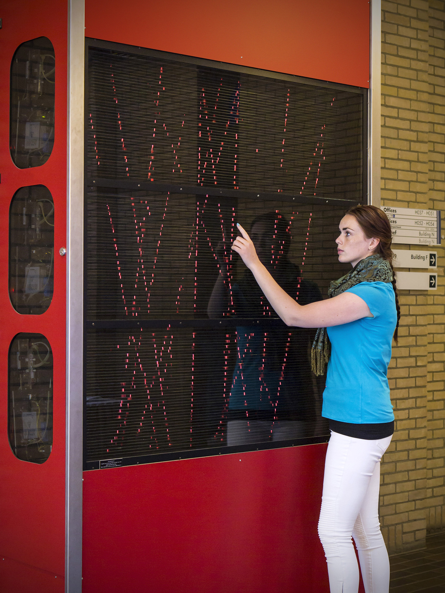 Demonstration spark chamber located at Nikhef, the National Institute for Subatomic Physics in the Netherlands. This picture consist of 2 stacked photos, a 1 minute exposure of sparks and a daytime picture with model.